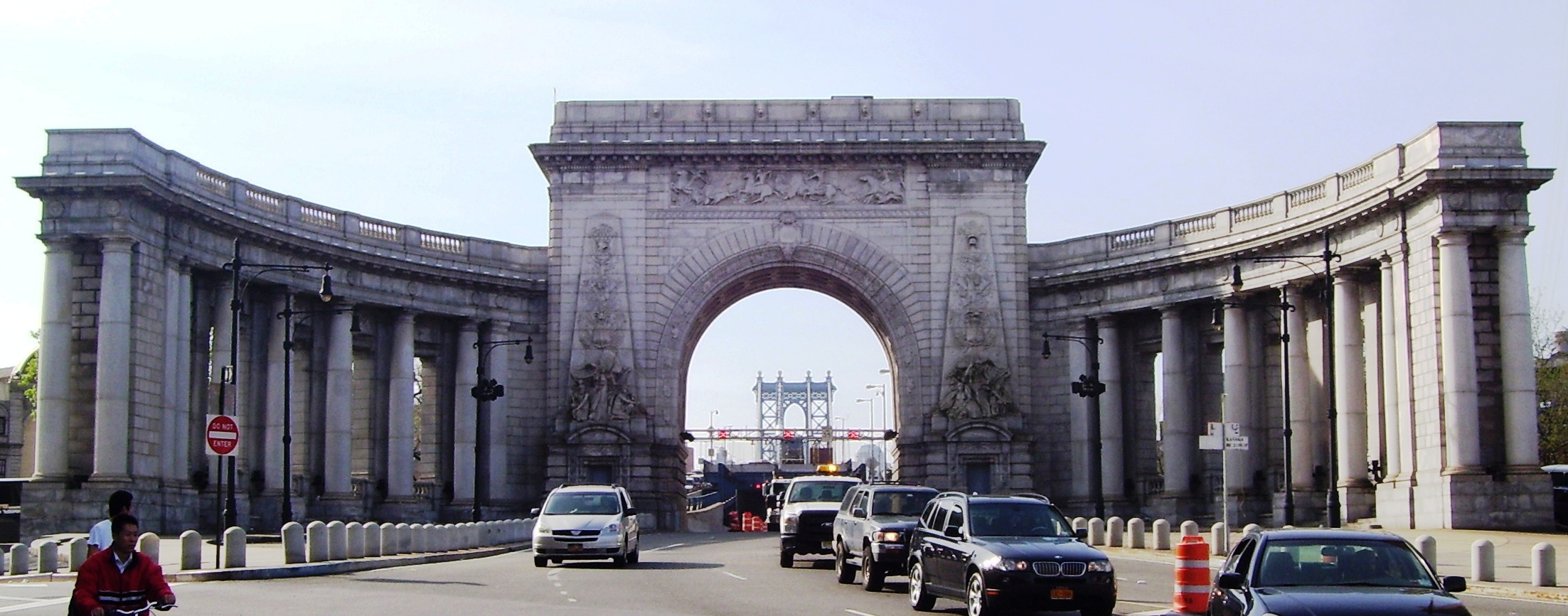 The Manhattan Bridge Arch and Colonnade, located at the Manhattan entrance to the bridge, was built between 1910, the year after the opening of the brudge, and 1915, and was designed by Carrere & Hastings as a triumphal arch with flanking curved colonnades. The decoration includes pylons which were sculpted by Carl A. Heber and a frieze called "Buffalo Hunt" by Charles Rumsey. The arch and colonnade were repaired and restored in 2000. (Source: Guide to NYC Landmarks (4th ed.))